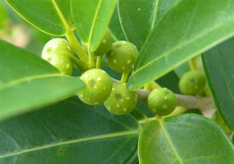 Ficus burtt-davyi fruits with foliage